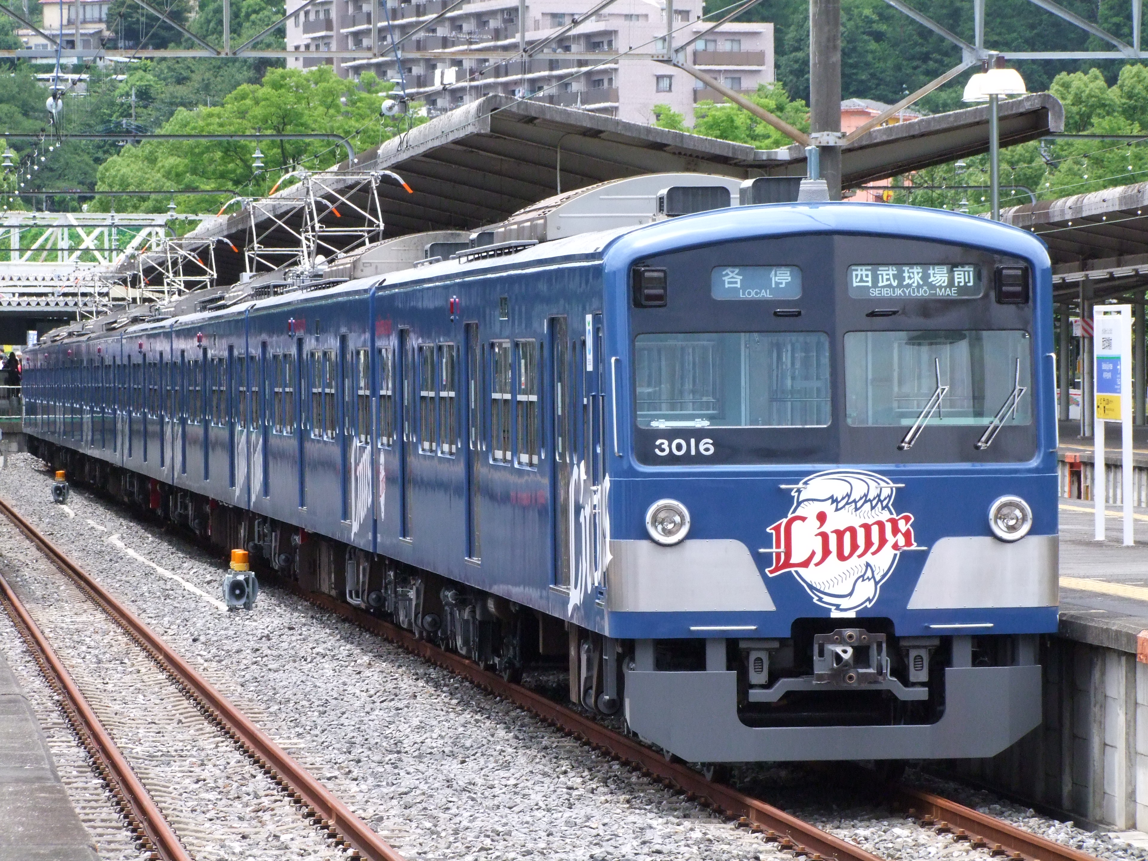 Seibu 3000 series 8-car EMU set 3015 (KuHa 3016 end) in Saitama Seibu Lions livery at Seibu Kyujomae Station on the Seibu Sayama Line